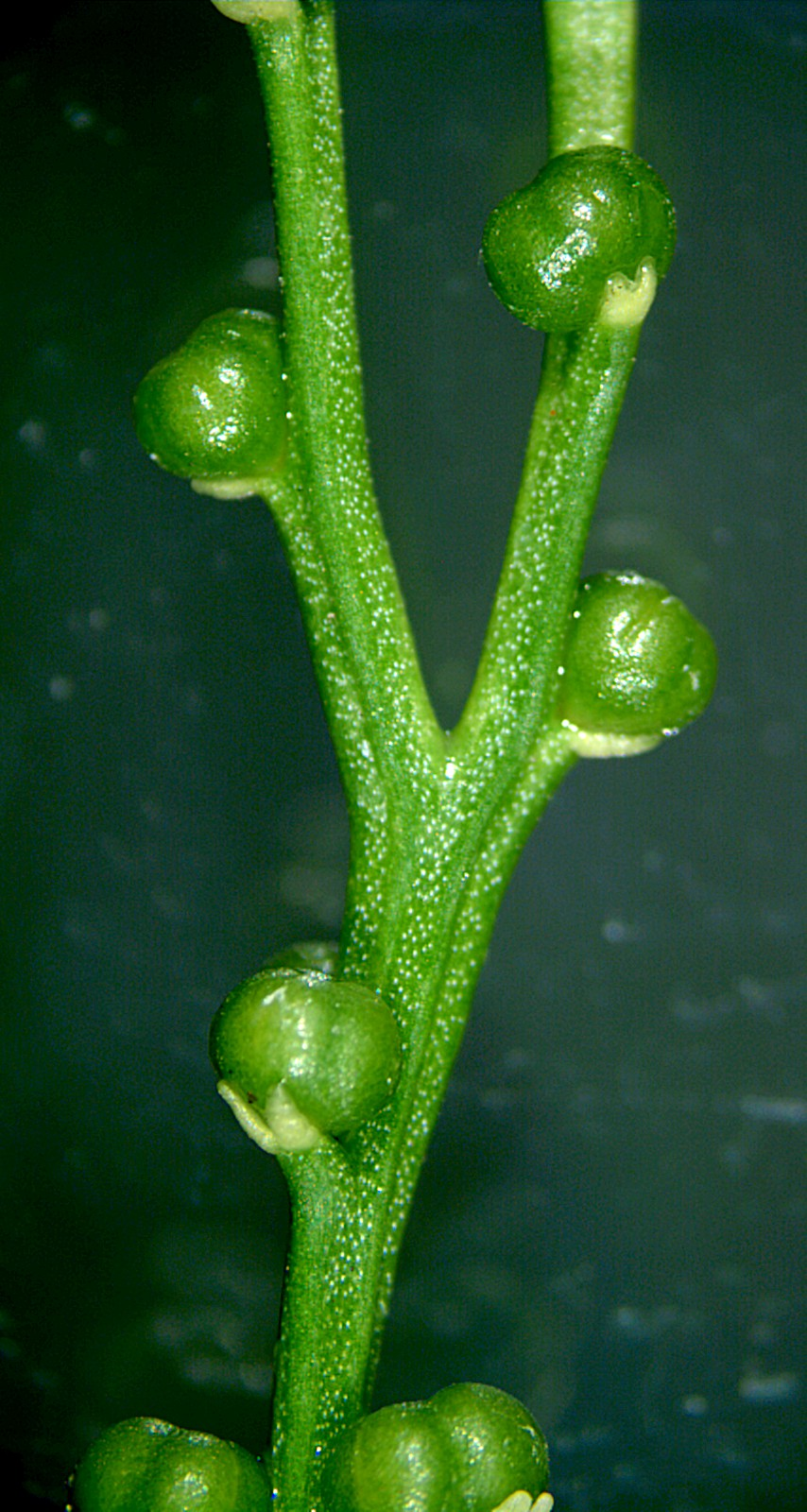 Stem of Psilotum nudum with synangia